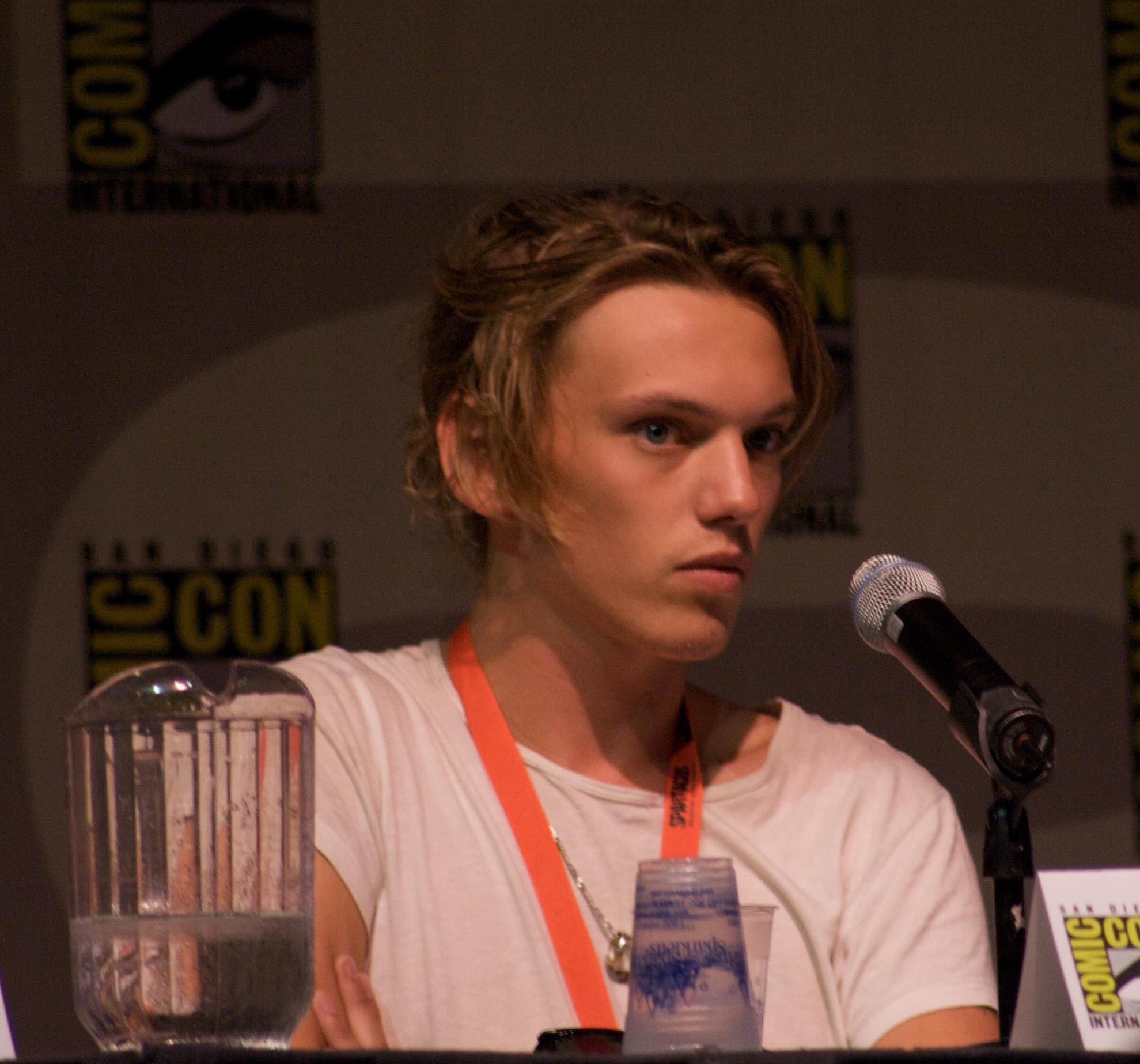 Jamie Campbell Bower, who plays number 1112, the son of Number 2 in the Prisoner remake.